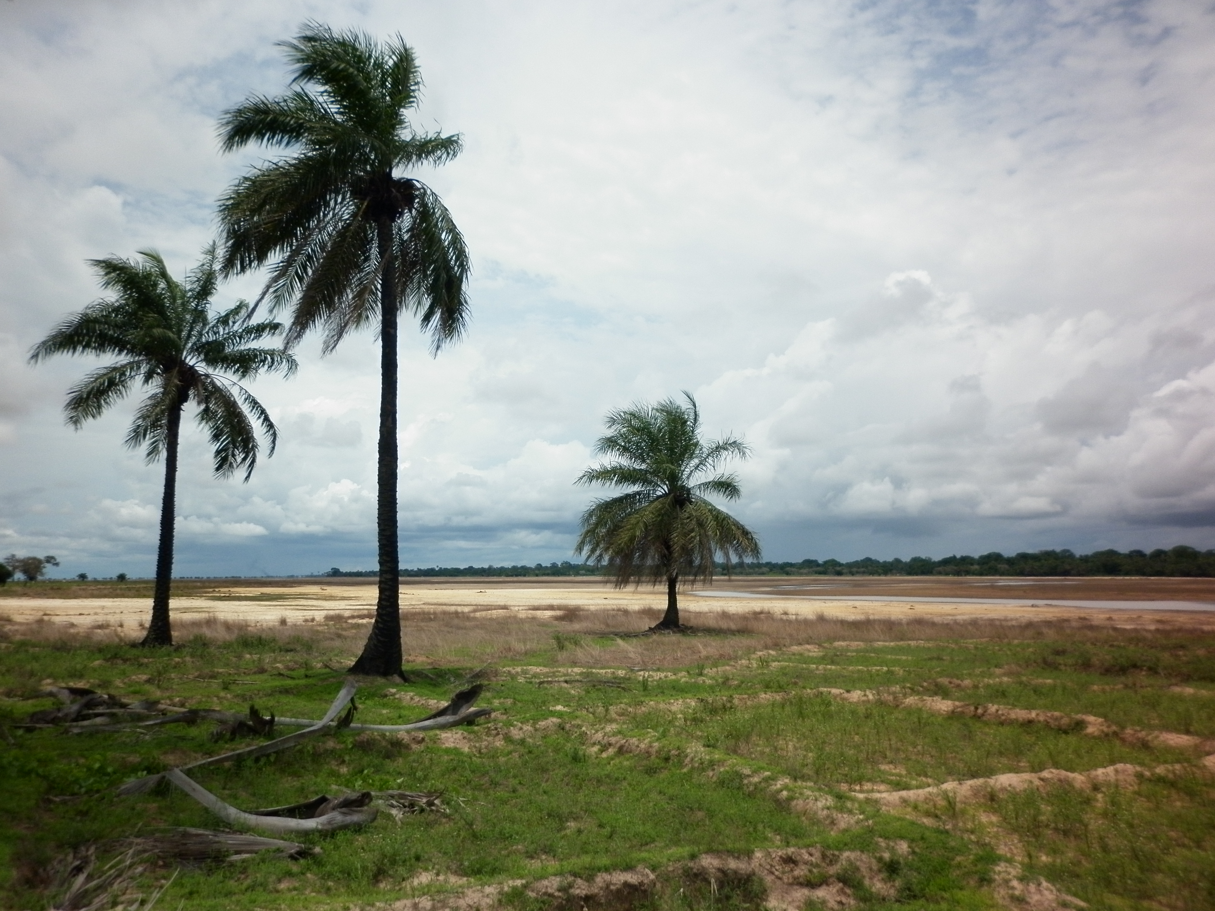 Rice plantations in Bagaya (Senegal)